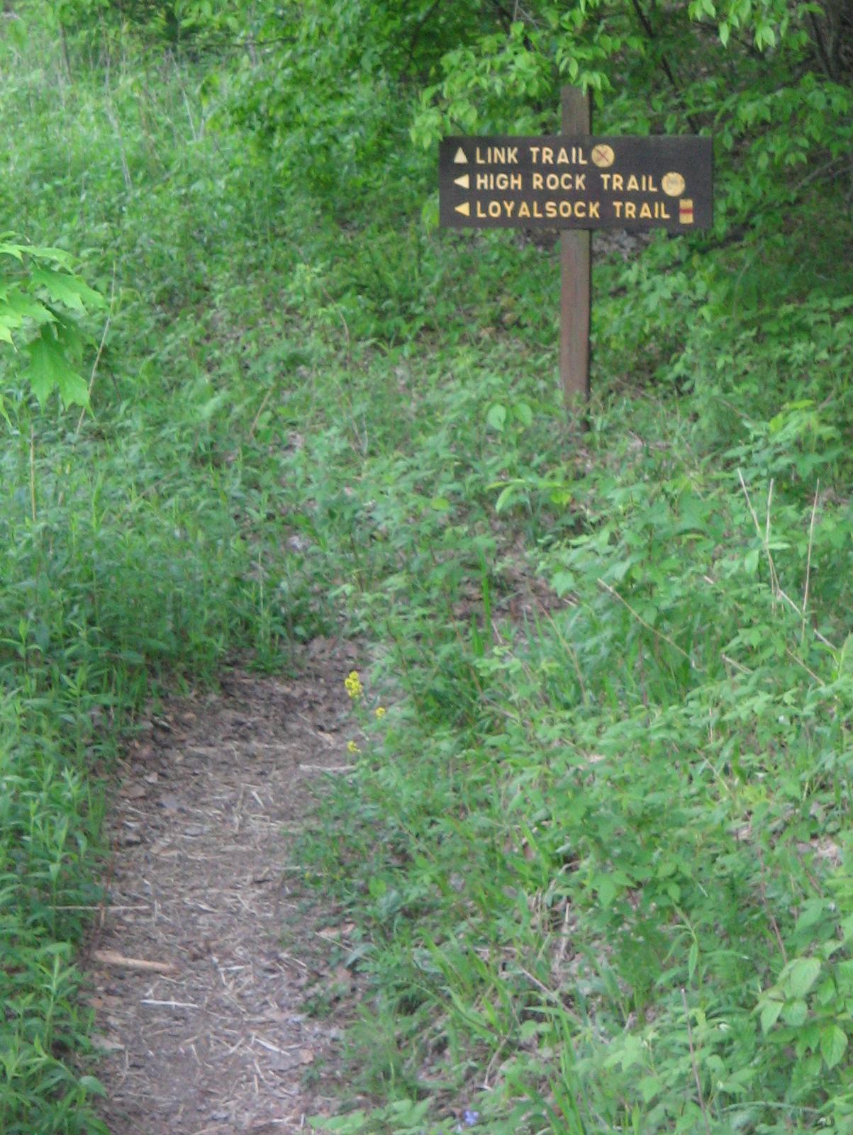 Trail sign for the Link Trail, High Rock Trail, and Loyalsock Trail blaze in Worlds End State Park, near Forksville, Sullivan County, Pennsylvania, USA.